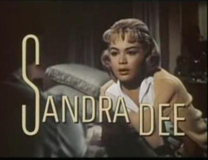 Screenshot of Sandra Dee from the film Imitation of Life